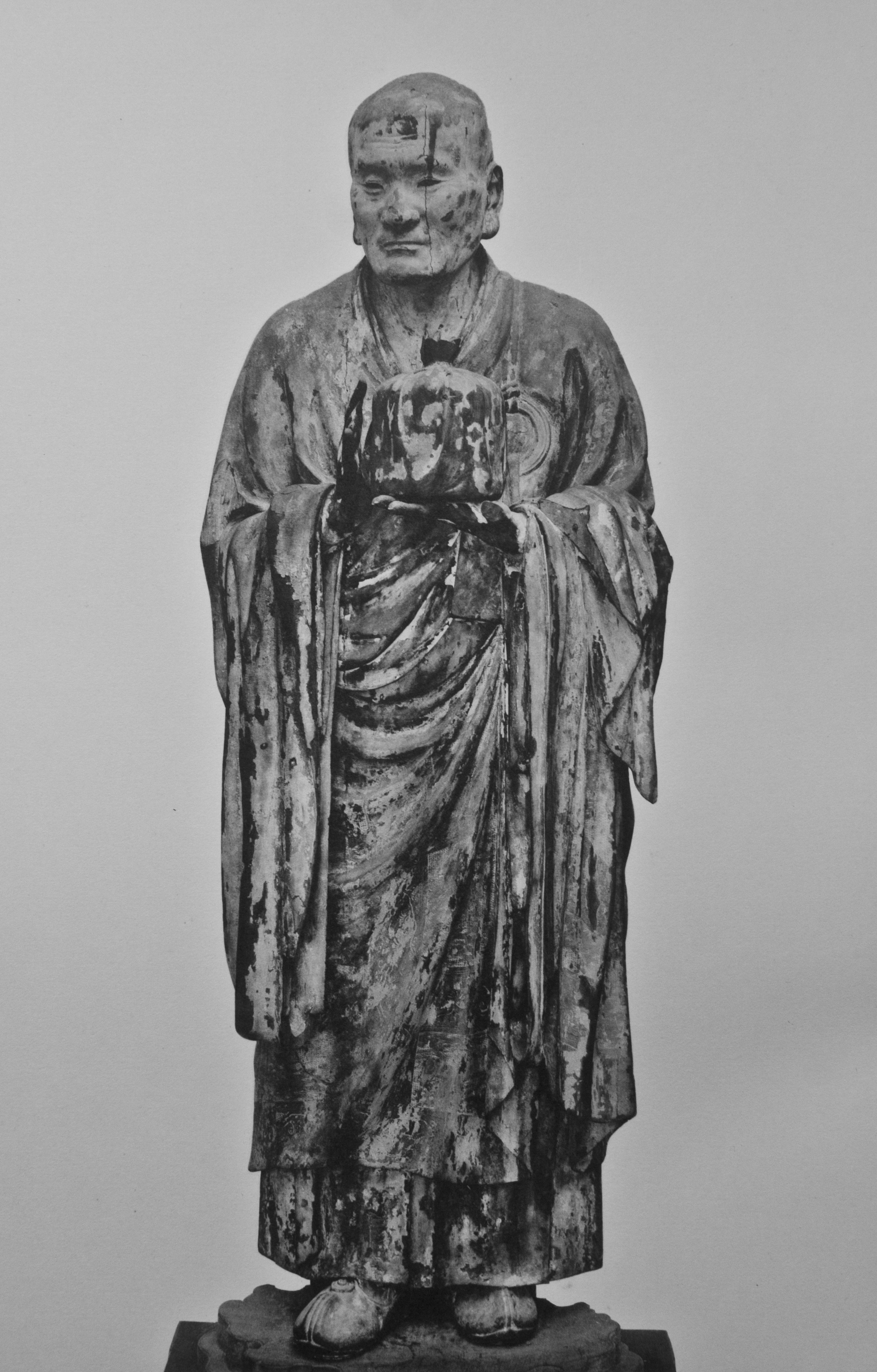 Kofukuji, Nara, Japan